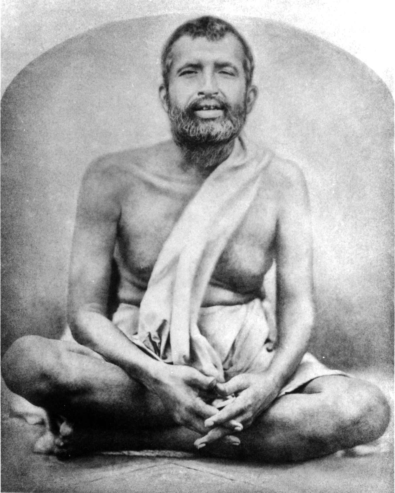 Ramakrishna Paramhansa Image:Ramakrishna.jpg This is the most famous photograph of Ramakrishna. The photograph was taken in October, 1885. Photographer was Abinash Chandra Dna